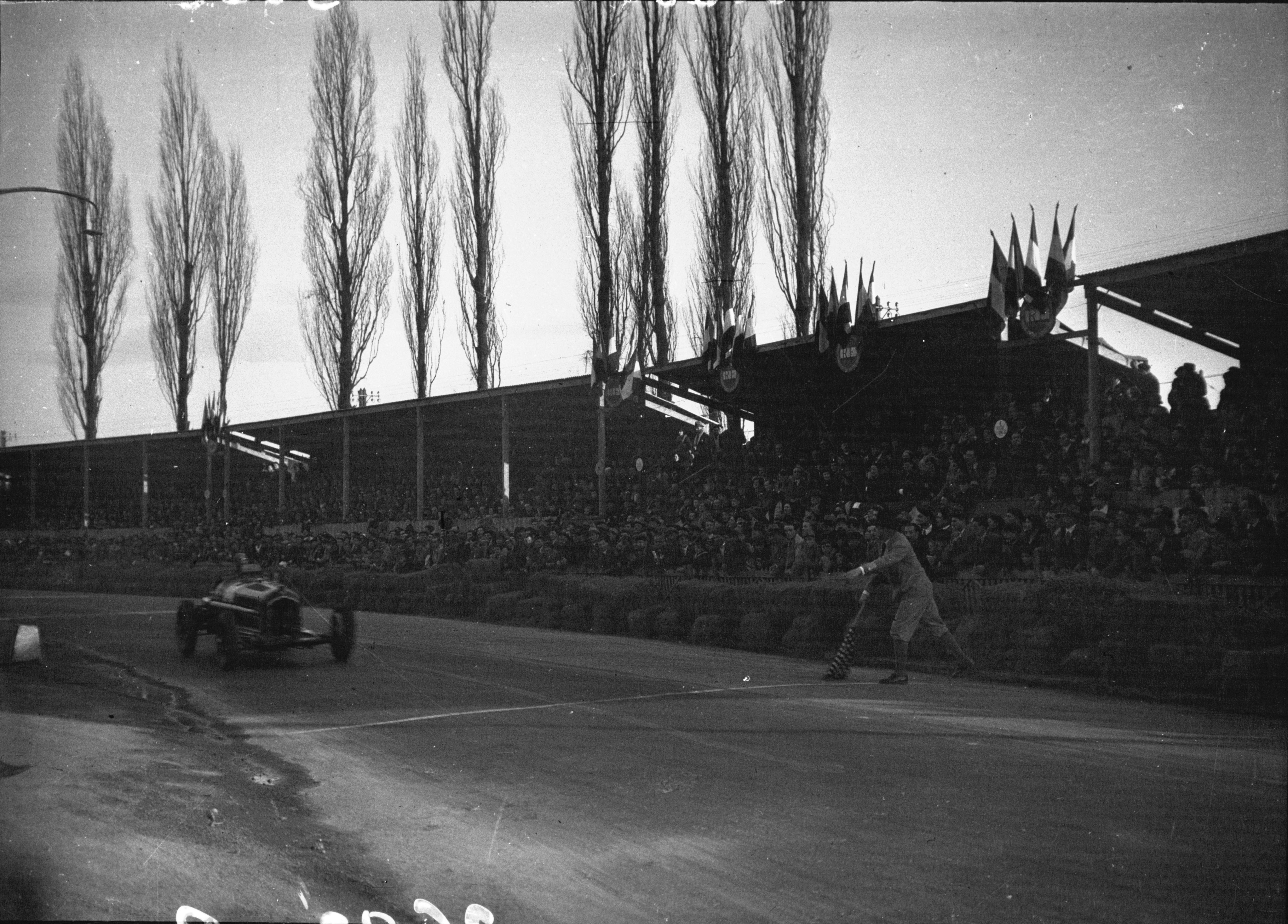 Tazio Nuvolari winning the 1935 Grand Prix de Pau